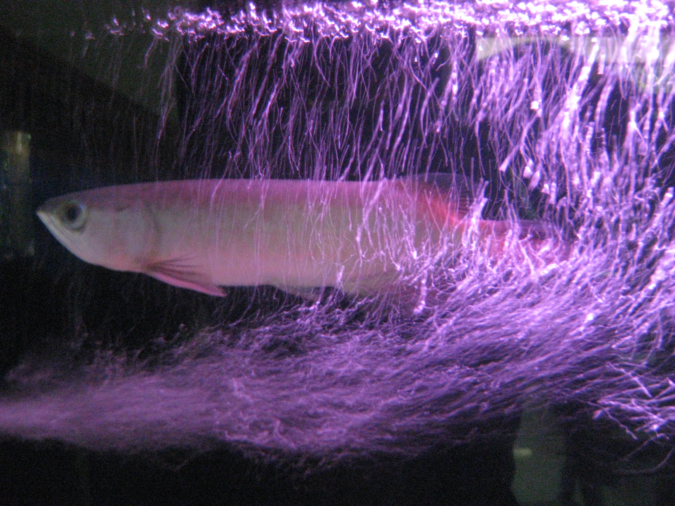 a sub adult arowana fish from pokoot hiding in bubbles